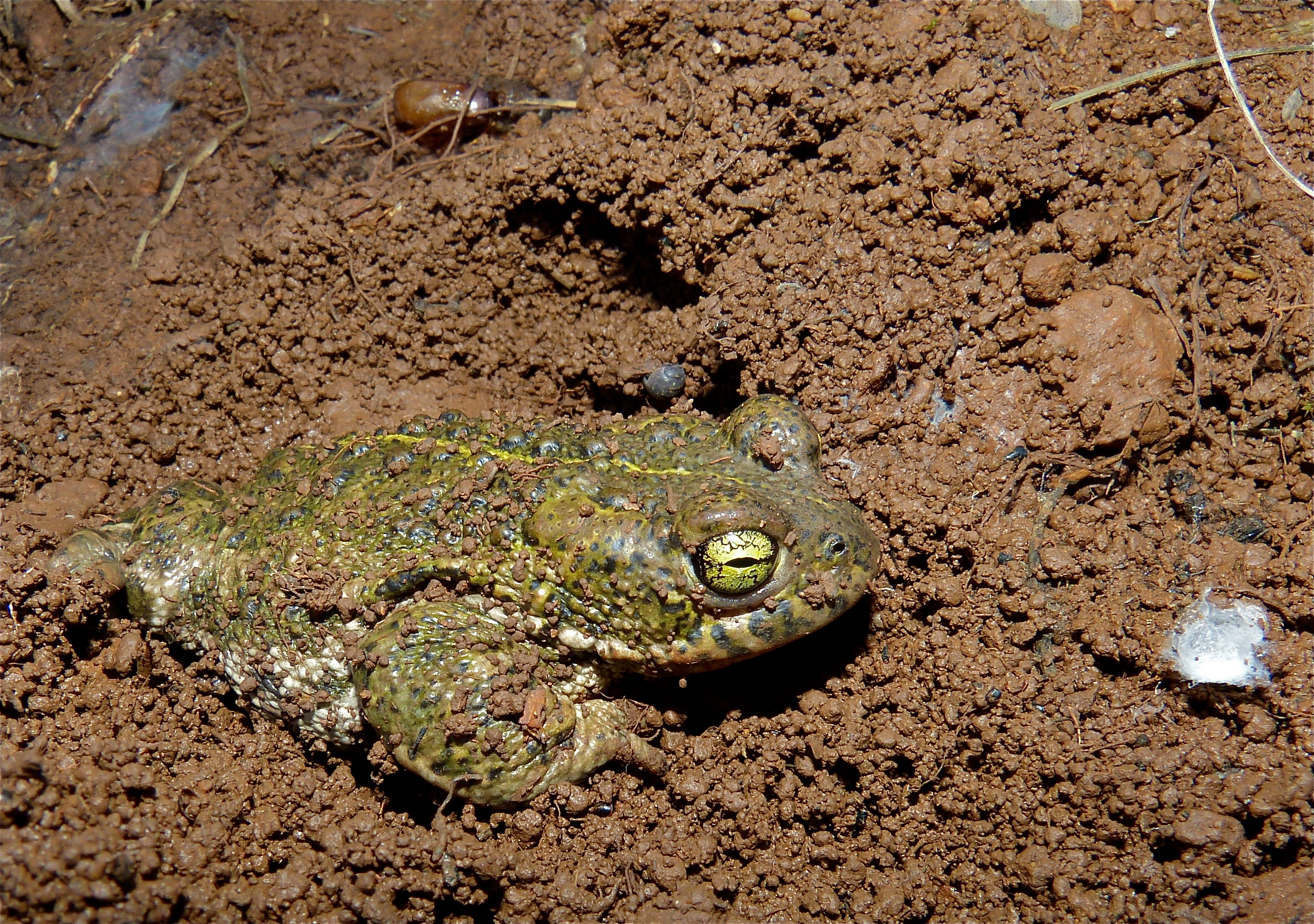 Les Rives, Hérault, FRANCE (Found by Jean NICOLAS)